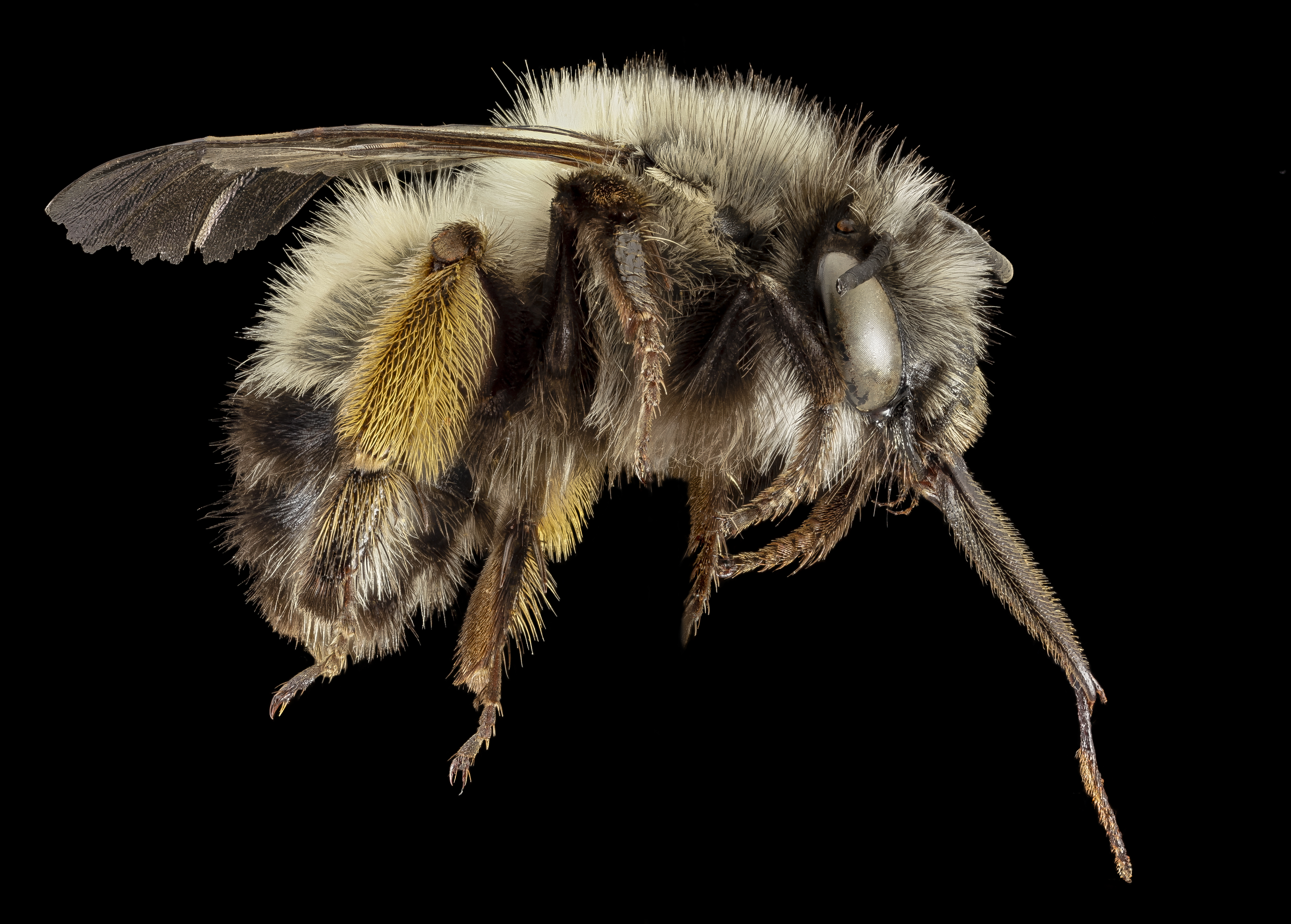 An uncommon bee from The Eastern part of the Mediterranean basin.This particular specimen was collected by Jelle Devalez who hunts bees in the Aegean islands of Greece.